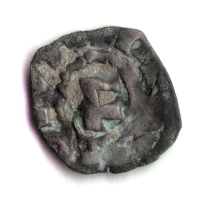 Denario pisano da Quire - Isola d'Elba